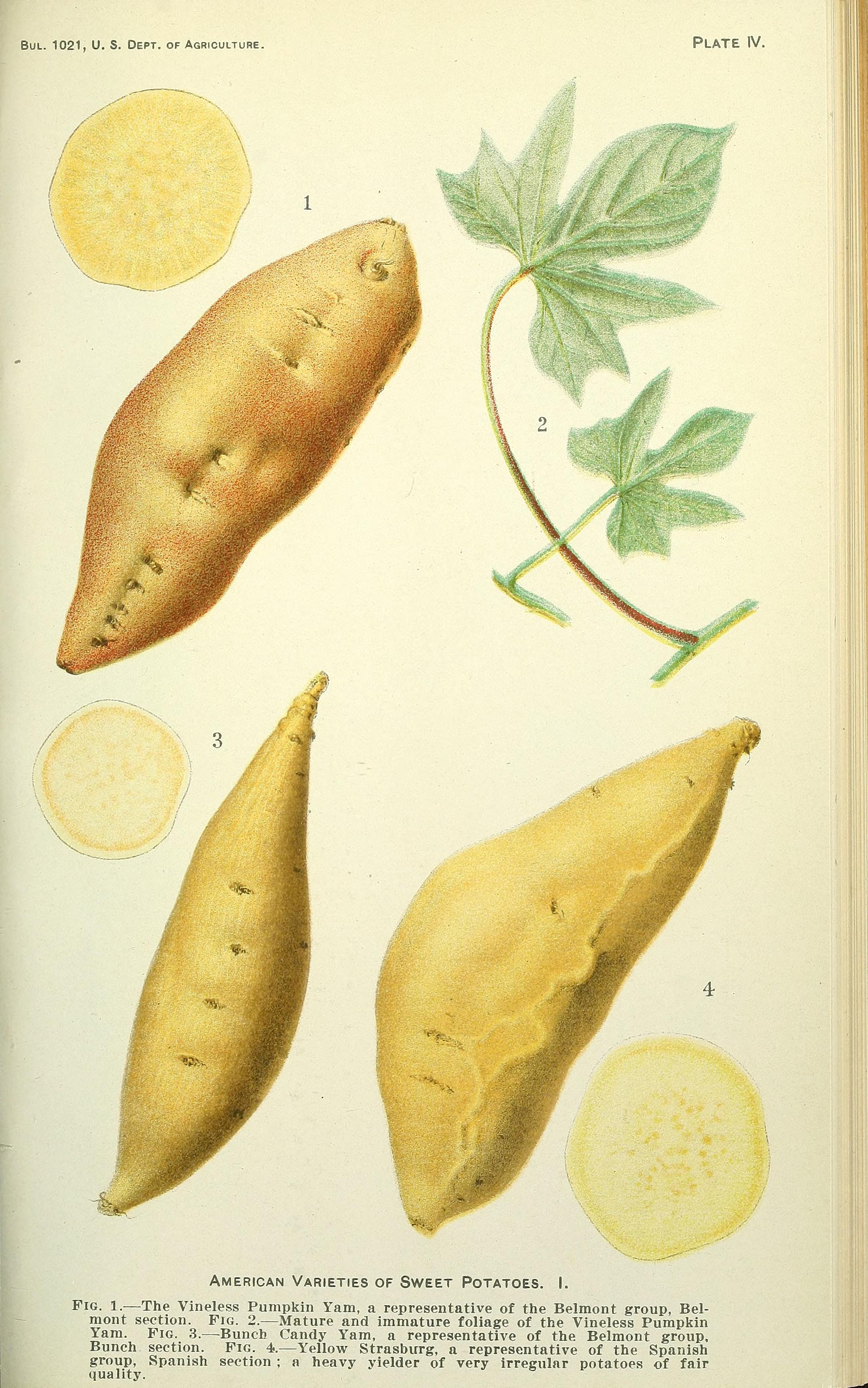 Title: Bulletin of the U.S. Department of Agriculture Year: 1913-1923. (1910s) Authors: United States. Dept. of Agriculture Subjects: Agriculture; Agriculture Publisher: (Washington, D. C. ?) : The Dept. : Supt. of Docs. , G. P. O. Text Appearing Before Image: Bul. 1021, U. S. Dept. of Agriculture. Plate IV. Text Appearing After Image: American Varieties of Sweet Potatoes. I. Fig. 1.—The Vineless Pumpkin Yam, a representative of the Belmont group, Bel- mont section. Fig. 2.—Mature and immature foliage of the Vineless Pumpkin Yam. Fig. 3.—Bunch Candy Yam, a representative of the Belmont group. Bunch section. Fig. 4.—Yellow Strasburg, a representative of the Spanish group, Spanish section ; a heavy yielder of very irregular potatoes of fair quality.